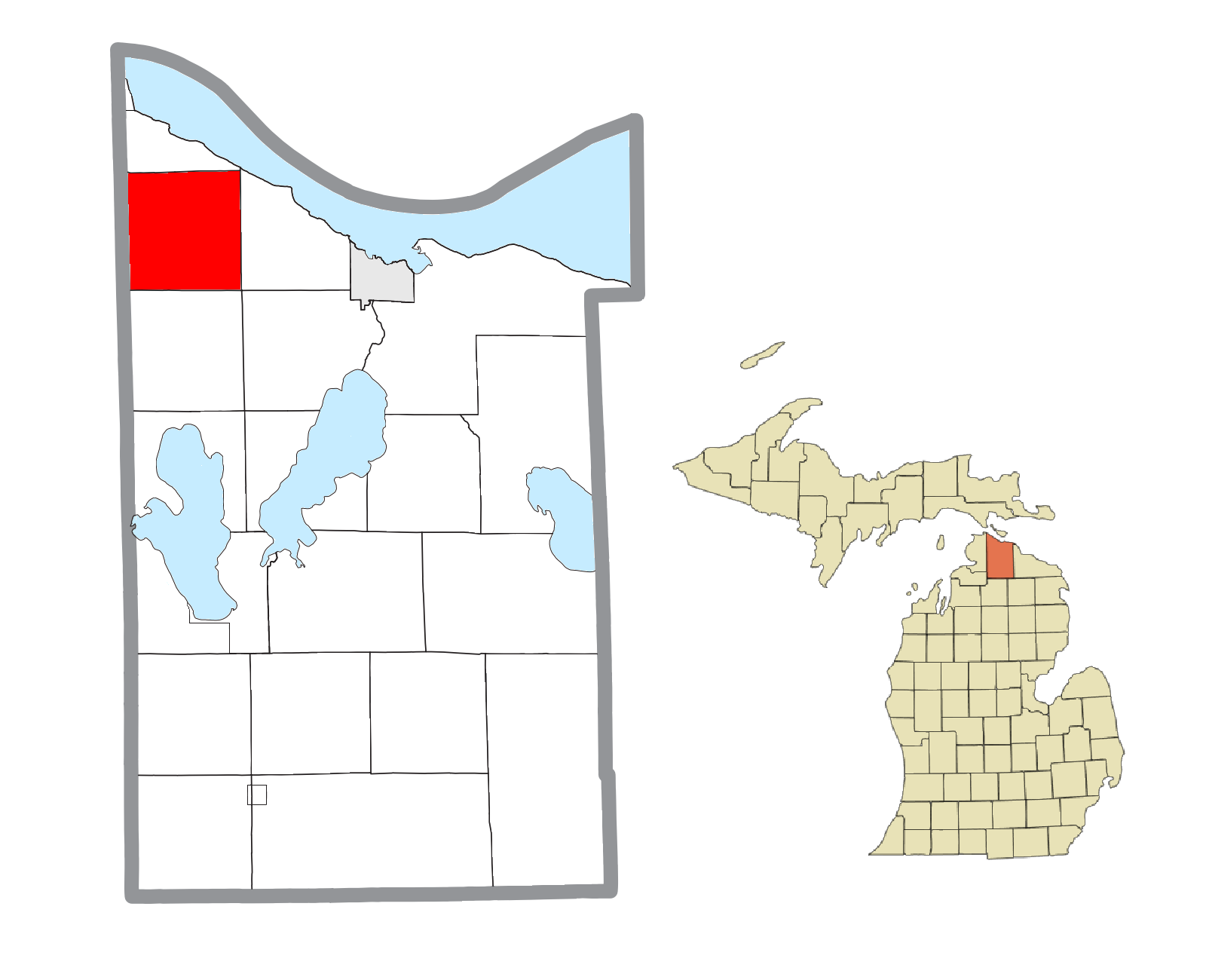 Hebron Township, MI